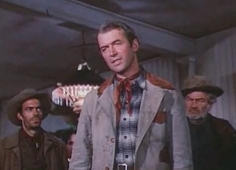 Cropped screenshot of the film The Far Country